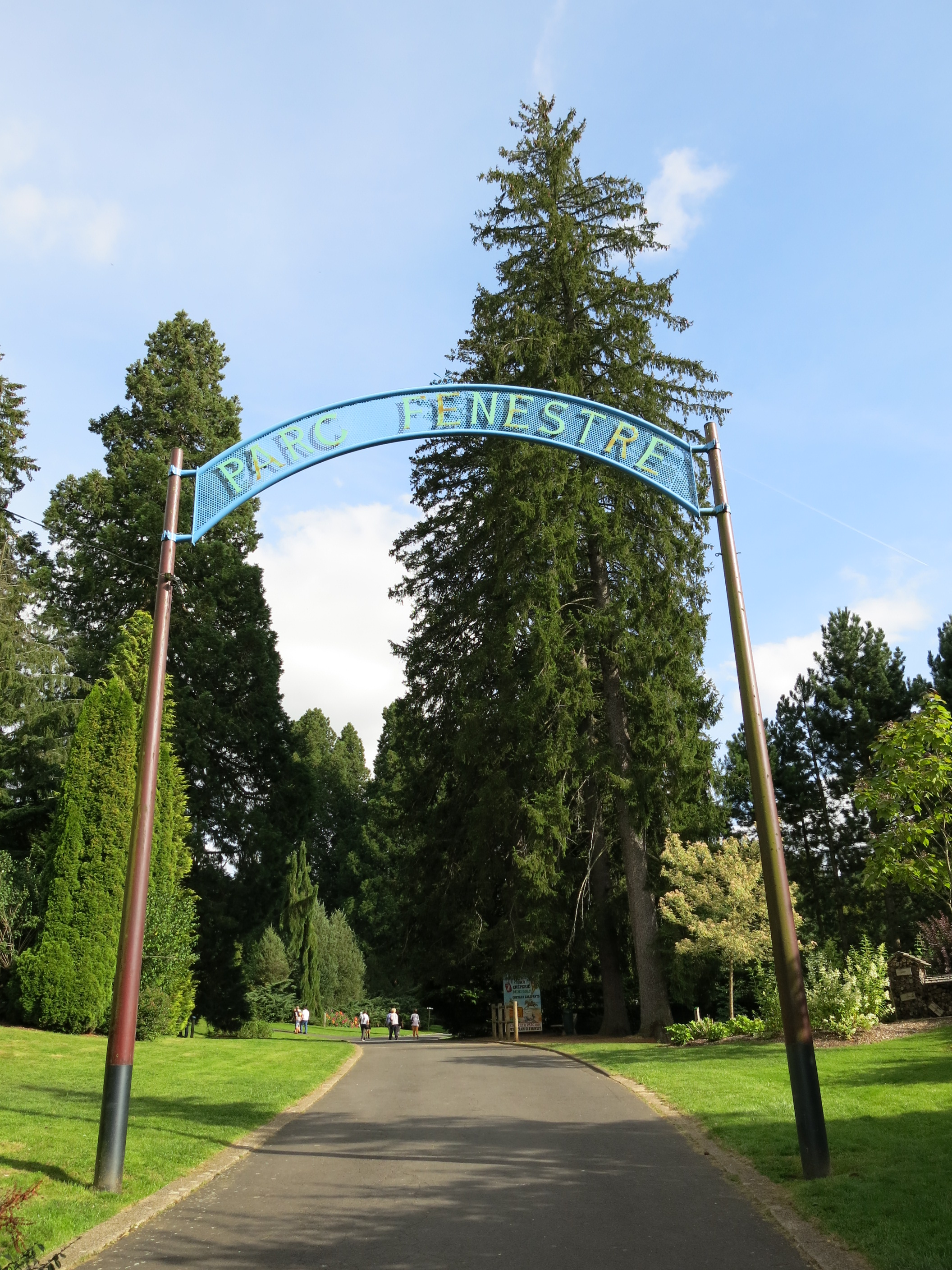 Entrance of parc Fenestre in la Bourboule (Puy-de-Dôme, France).